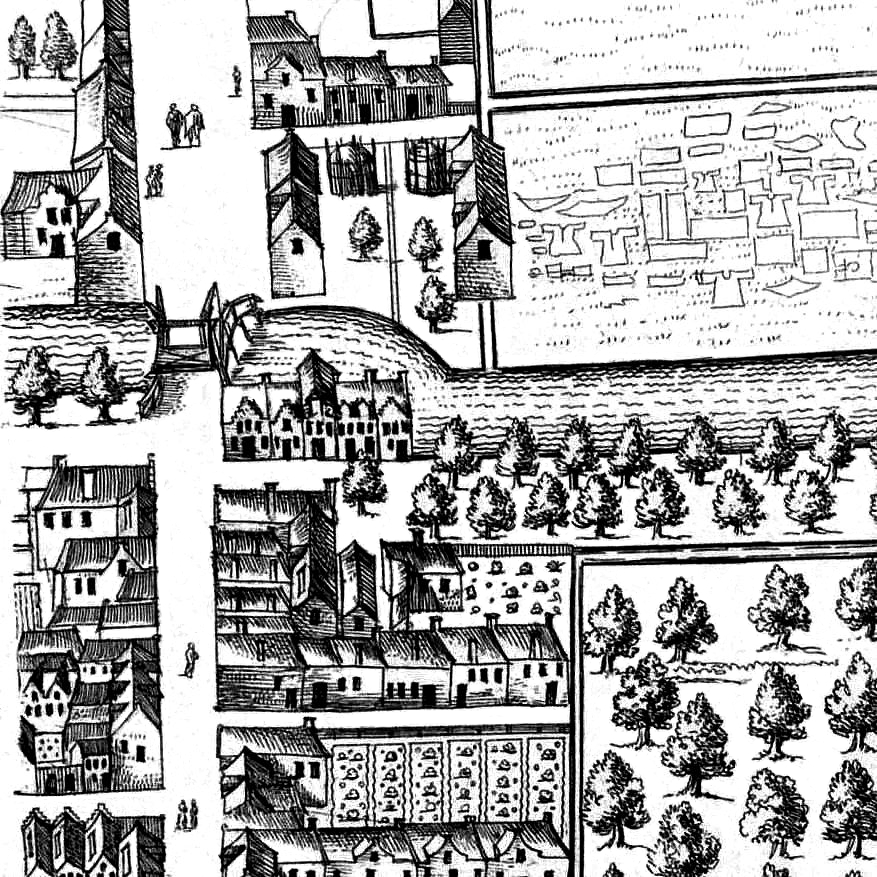 Detail of a map showing the surroundings of the Scheveningen Bridge in The Hague, the Netherlands. From the top down are depicted the Zeestraat, the Scheveningen Bridge with below it to the right the Scheveningen Veer. Below the bridge downward is the Noordeinde.